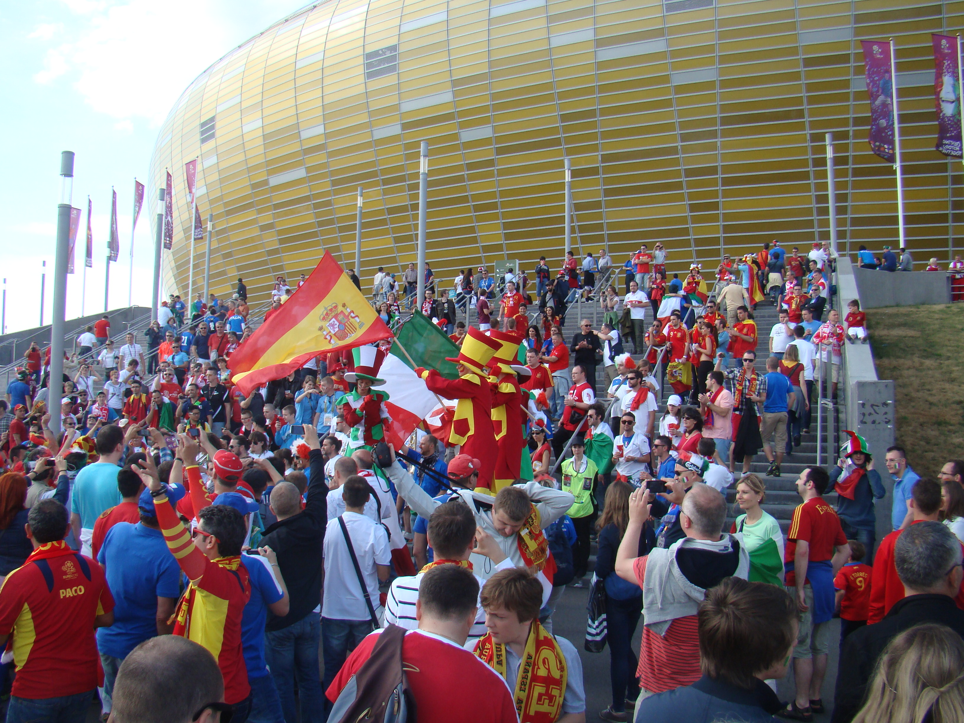 Supporters before the match Spain - Italy outside the stadium in Gdańsk during Euro 2012